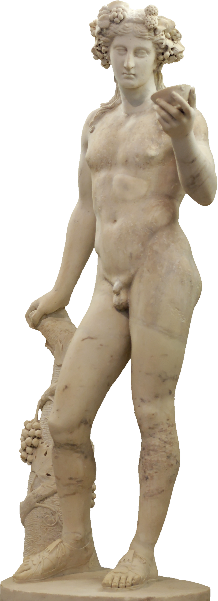 Statue of Dionysus. Marble, 2nd century CE (some restorations in the 17th century).